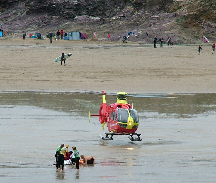 Cornwall air ambulance G-KRNW Eurocopter EC 135 landing on the beach at Polzeath, Cornwall, to ferry an injured surfer - 16 August 2008